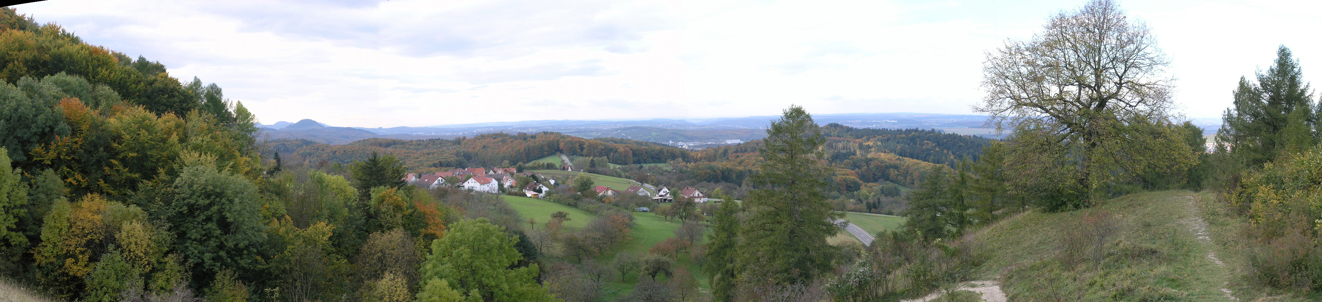 View over the "Schwäbische Alb". View from "Jusiberg" over the little village Kappishäusern towards West. On the left side in the near back you see Reutlingen's high Achalm. Unvisible behind is the Georgenberg, flanking Pfullingen/Reutlingen. While the Achalm is an outlier, Jusiberg and Georgenberg are Upper Miocene volcanoes of the type "Schwäbischer Vulkan".